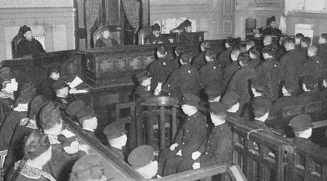 Trial of the civilian activists accused of aiding May 15 Incident